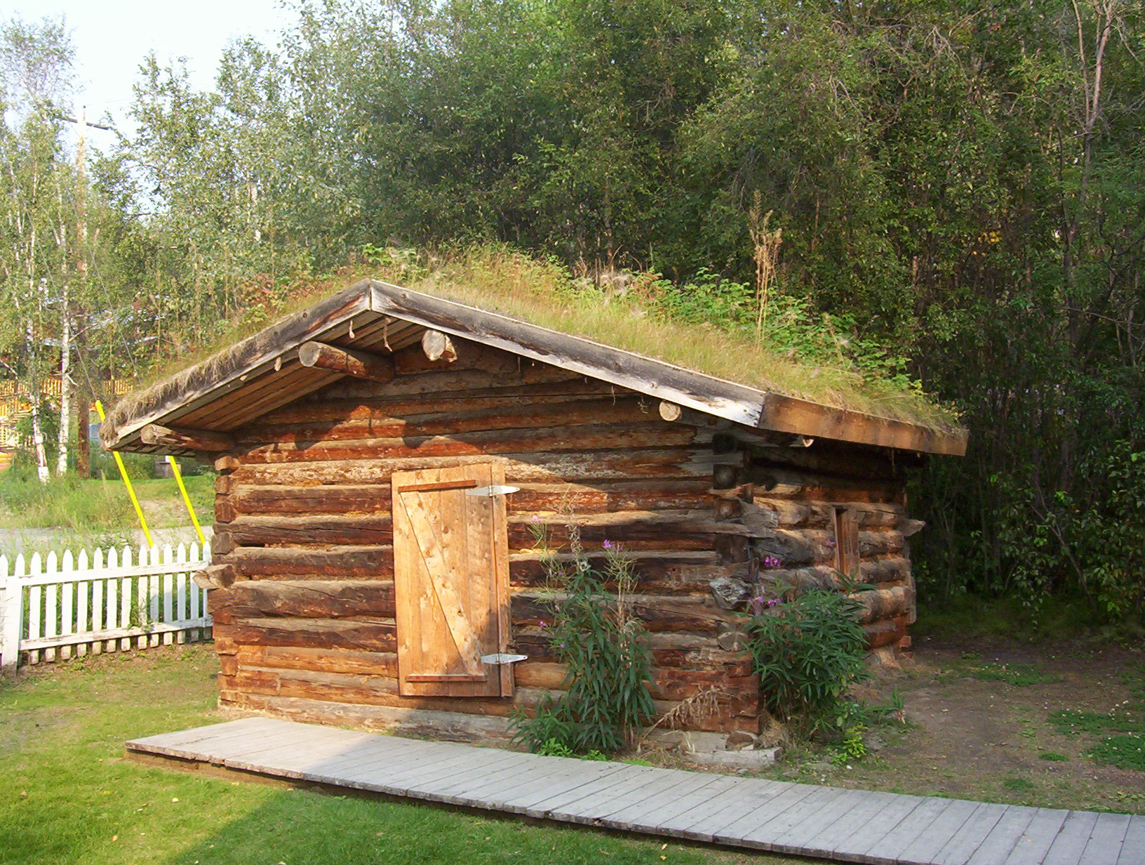 Jack London`s cabin, Dawson, Yukon, Canada. An identical cabin exists in Jack London's hometown of Oakland, California in the United States. Since the original 1898 cabin, located in the Yukon wilderness, was of historical interest to both Canadiana and Americans, a decision was made in the 1960s to build two identical cabins, each having half of the original logs: one to be erected at Jack London Square in Oakland, California and the other in Dawson City, Yukon.